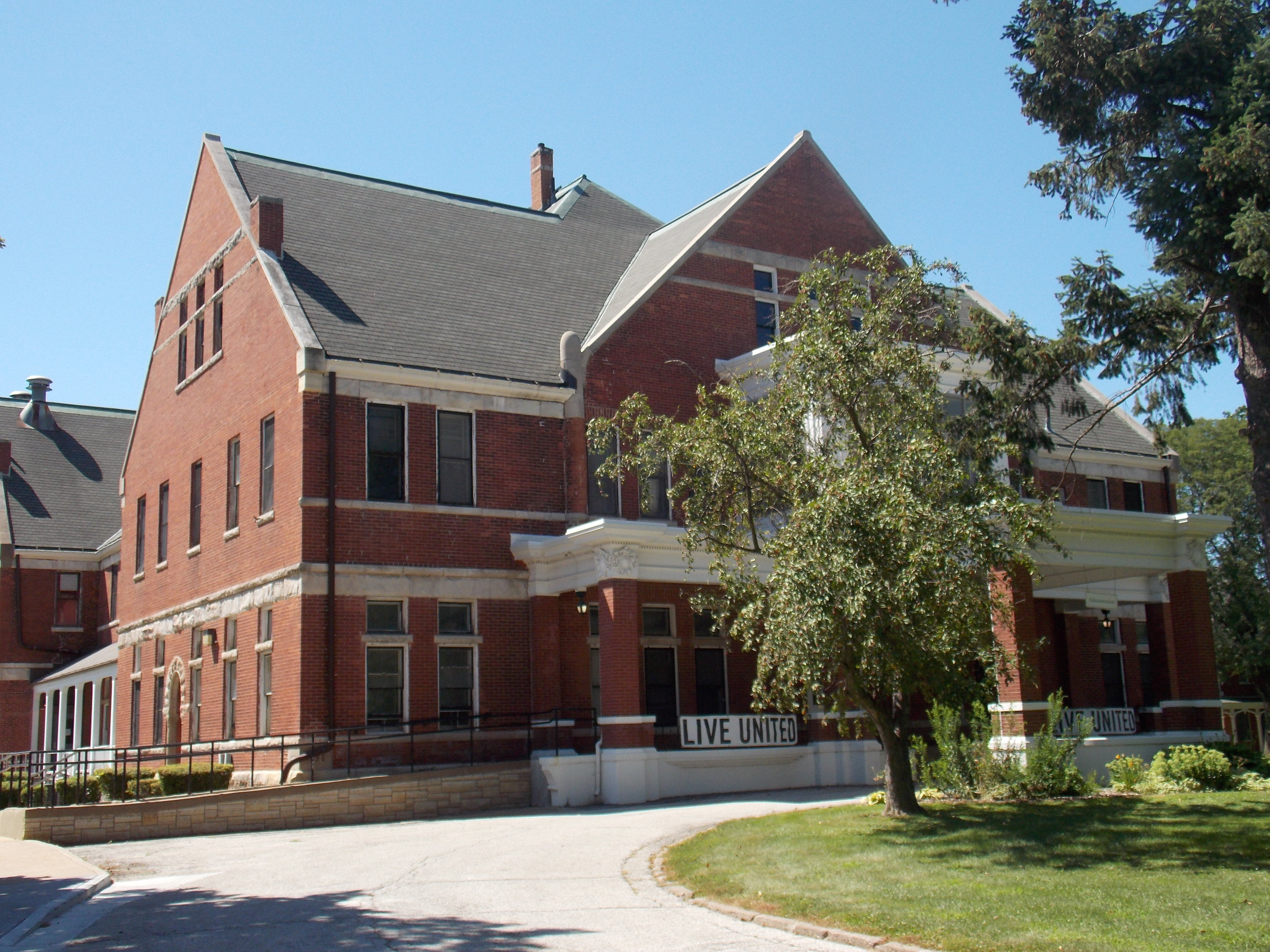 The Administration Building at the Iowa Soldiers' Orphans' Home. It is a contributing property in the Iowa Soldiers' Orphans' Home Historic District. It is referred to as Building K at the Annie Wittenmyer Center.